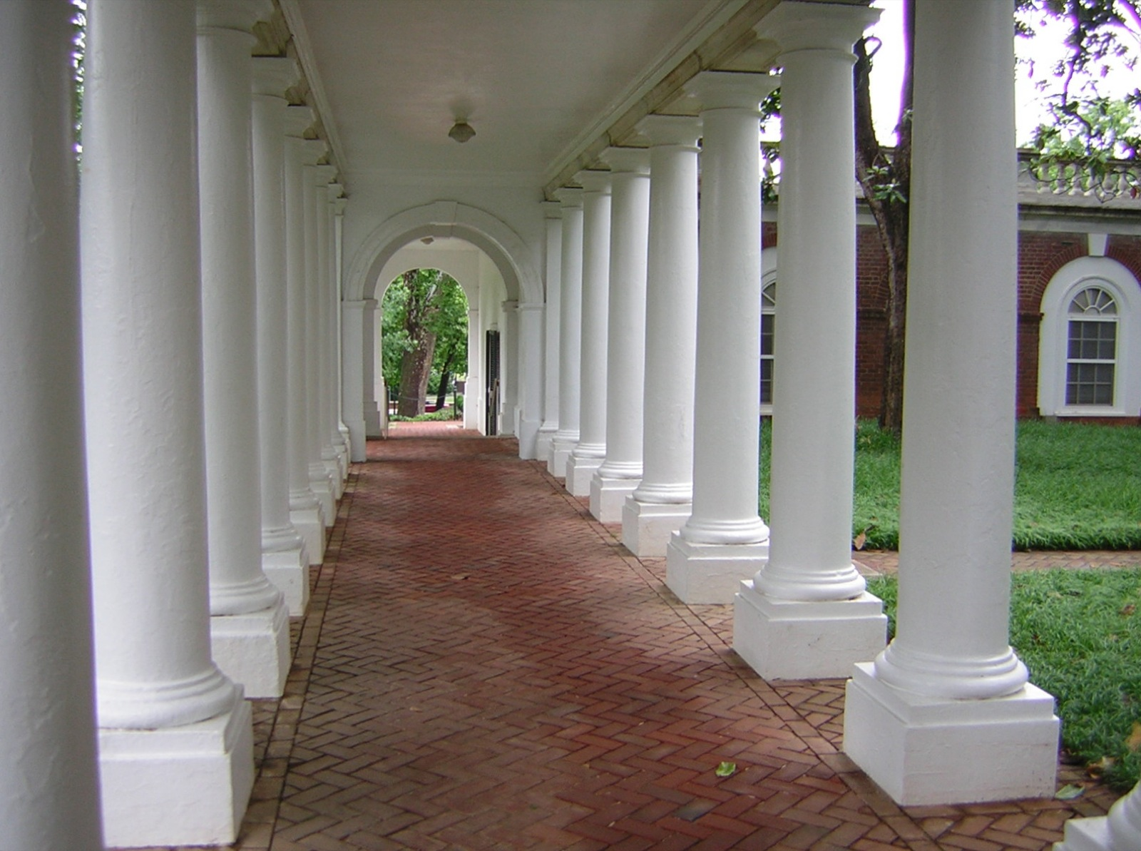 Colonnade of the Western "wing" at the Rotunda of the University of Virginia. Original title: "Rotunda, western colonnade" Original description: "Western colonnade, UVA Rotunda (Lawn)."